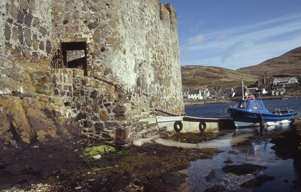 Landing stage Kisimul castle, Castlebay. Barra.